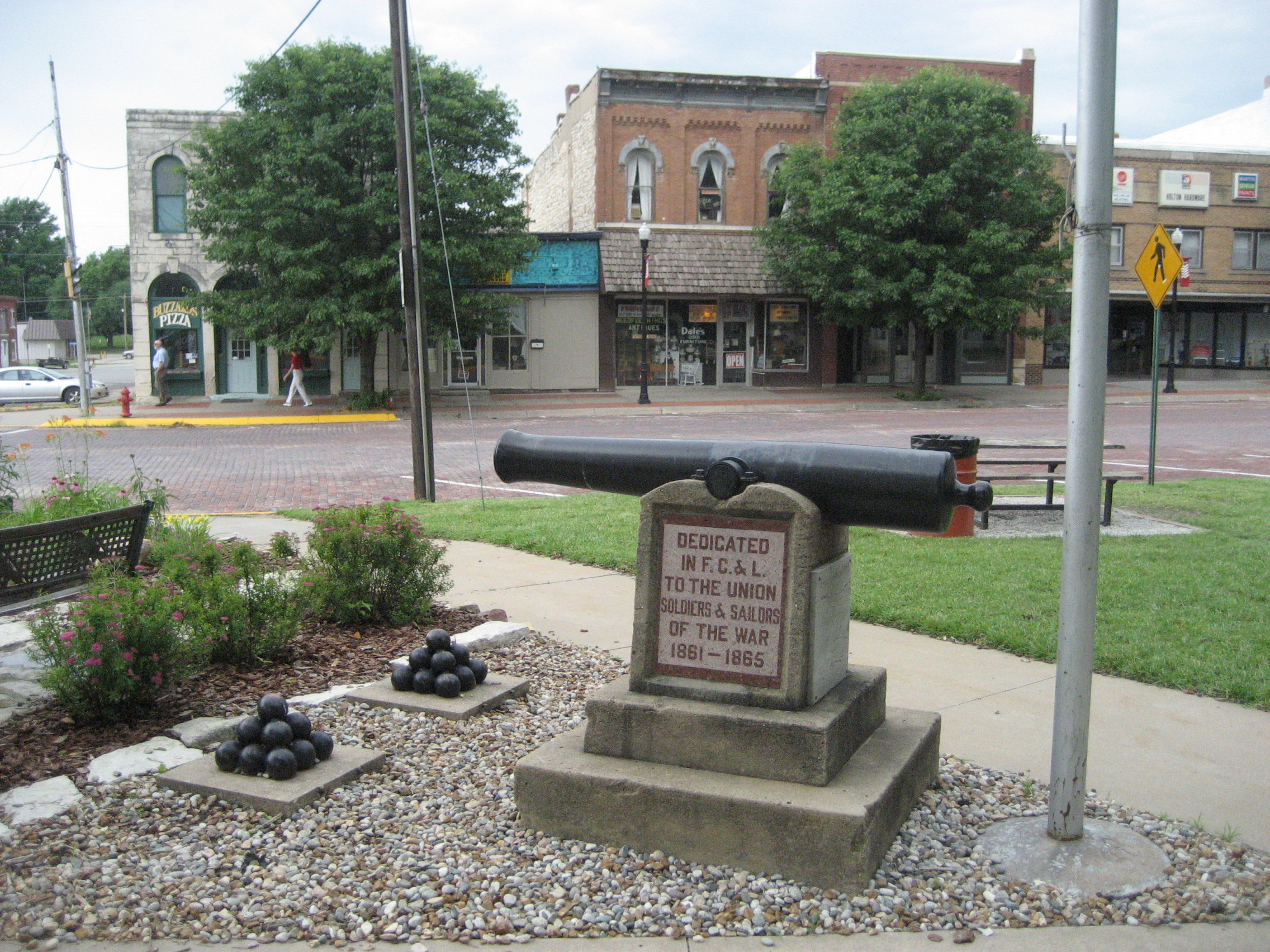 Holton, KC, West 4th St and New York Avenue